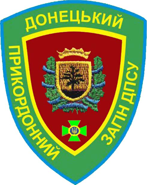 State Border Guard Service Patches of Ukraine